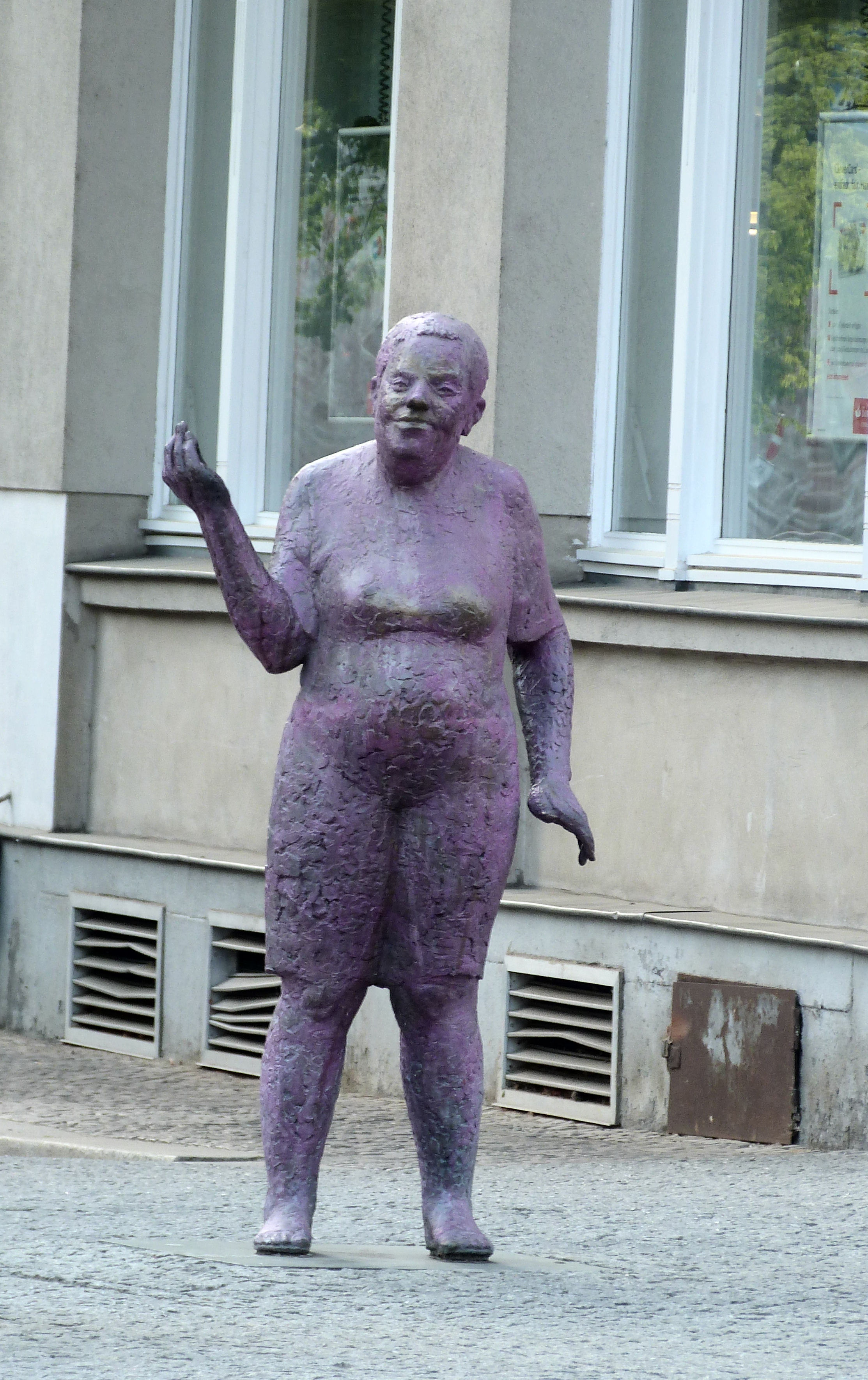 Eine Begegnung mittendrin (A meeting in the middle), sculpture Evi Küchler from Maya Graber, Geiststrasse, Halle (Saale)